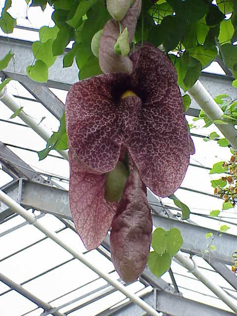 Species: Aristolochia gigantea Family: Aristolochiaceae Image No. 4